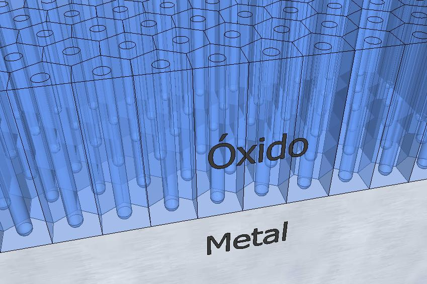 Porous anodization layer.